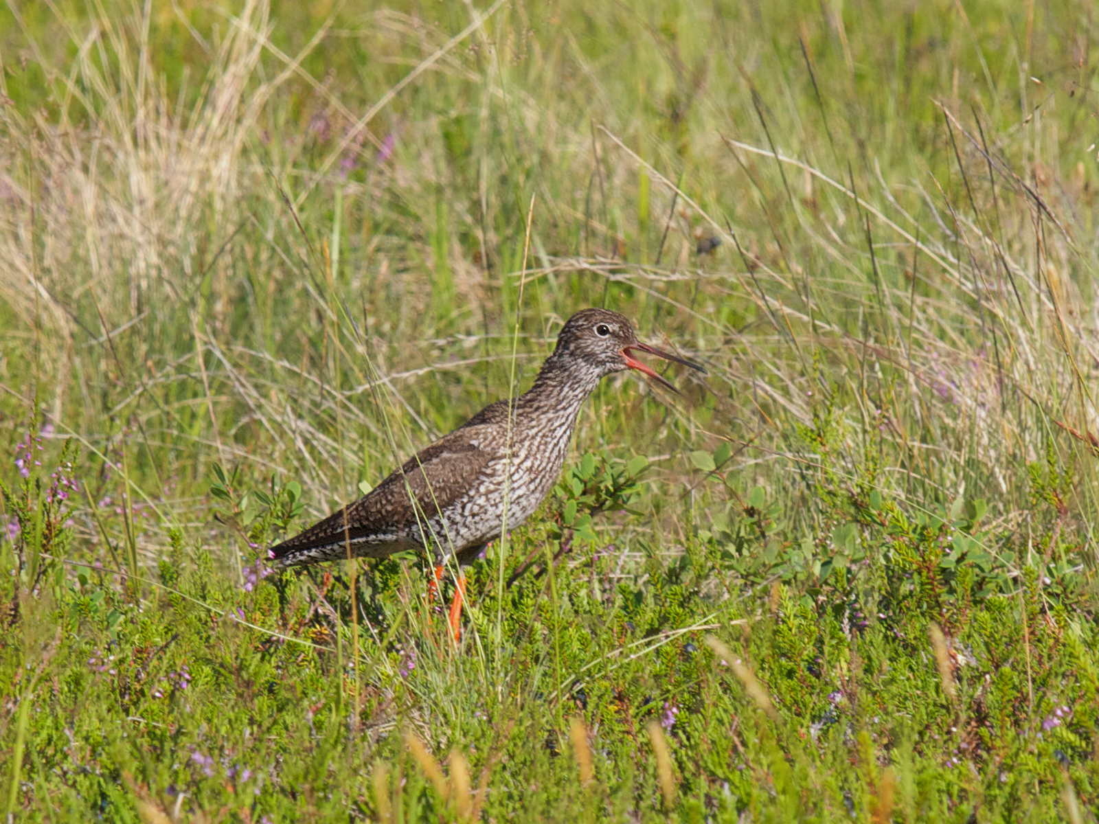 Common Redshank (Tringa totanus), Austerdalen, Sogn og Fjordane, Norway